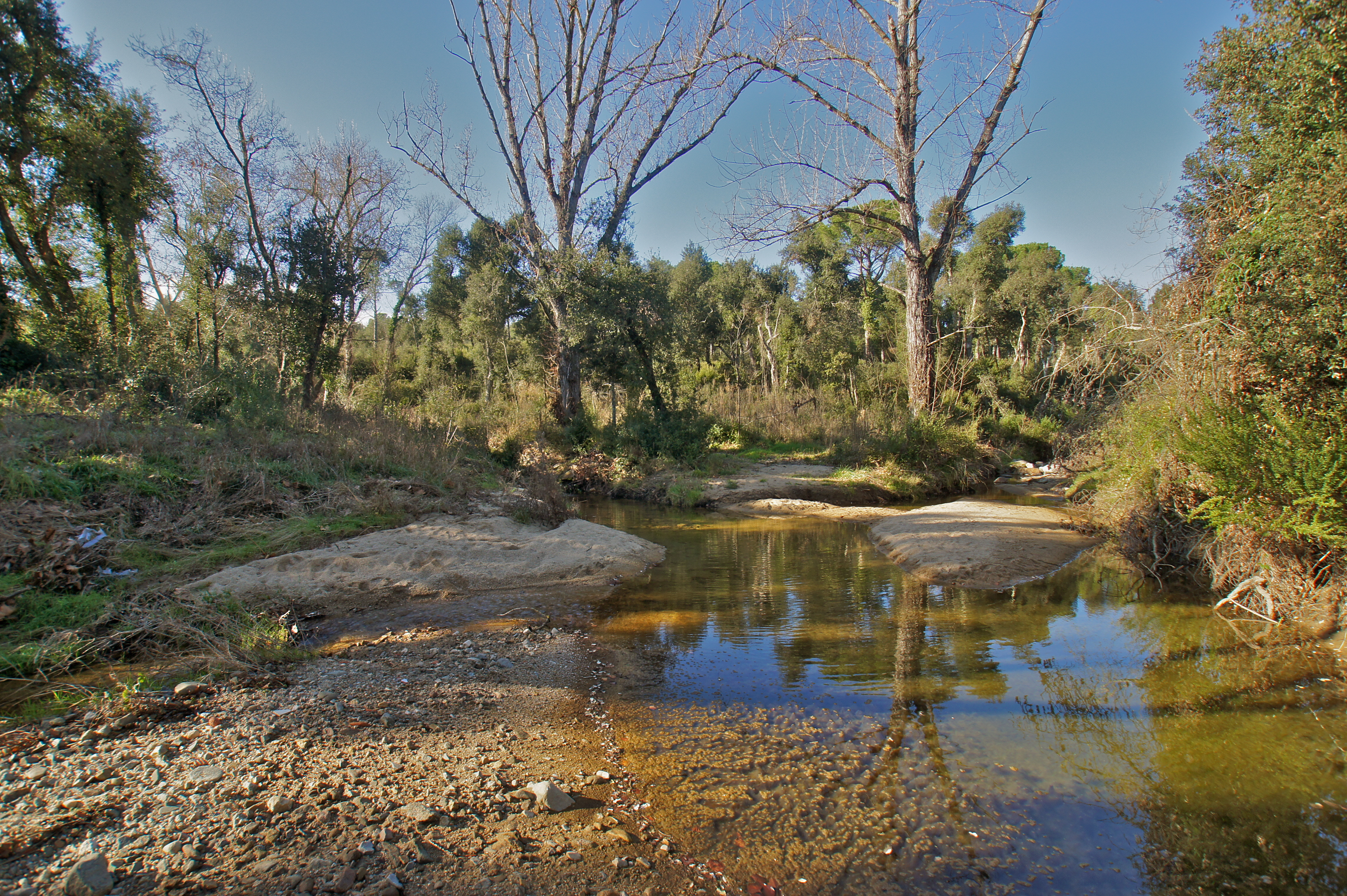 Calonge, Catalonia: The confluence of the Riera de Mas Riera and the Riera de Mas Cases in the Riera dels Molins